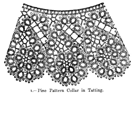 Occhi-Spitzenkragen